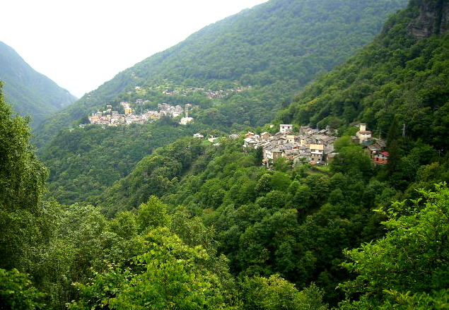 Two typical small villages Tremenico and Aveno located in the "Val Varrone" valley seen from the Strada Provinciale 67 (SP 67).